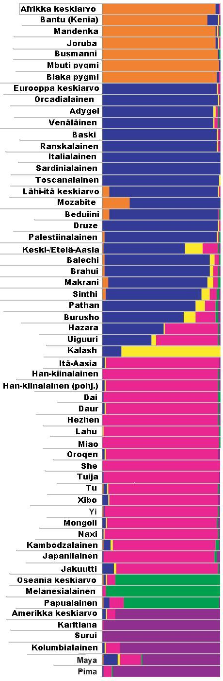 I made it de novo (excel & photoshop) using supplemental data from Rosenberg, N. A. et al. (2002). Genetic structure of human populations. Science 298, 2381–2385, modelled on presentation in Figure 1